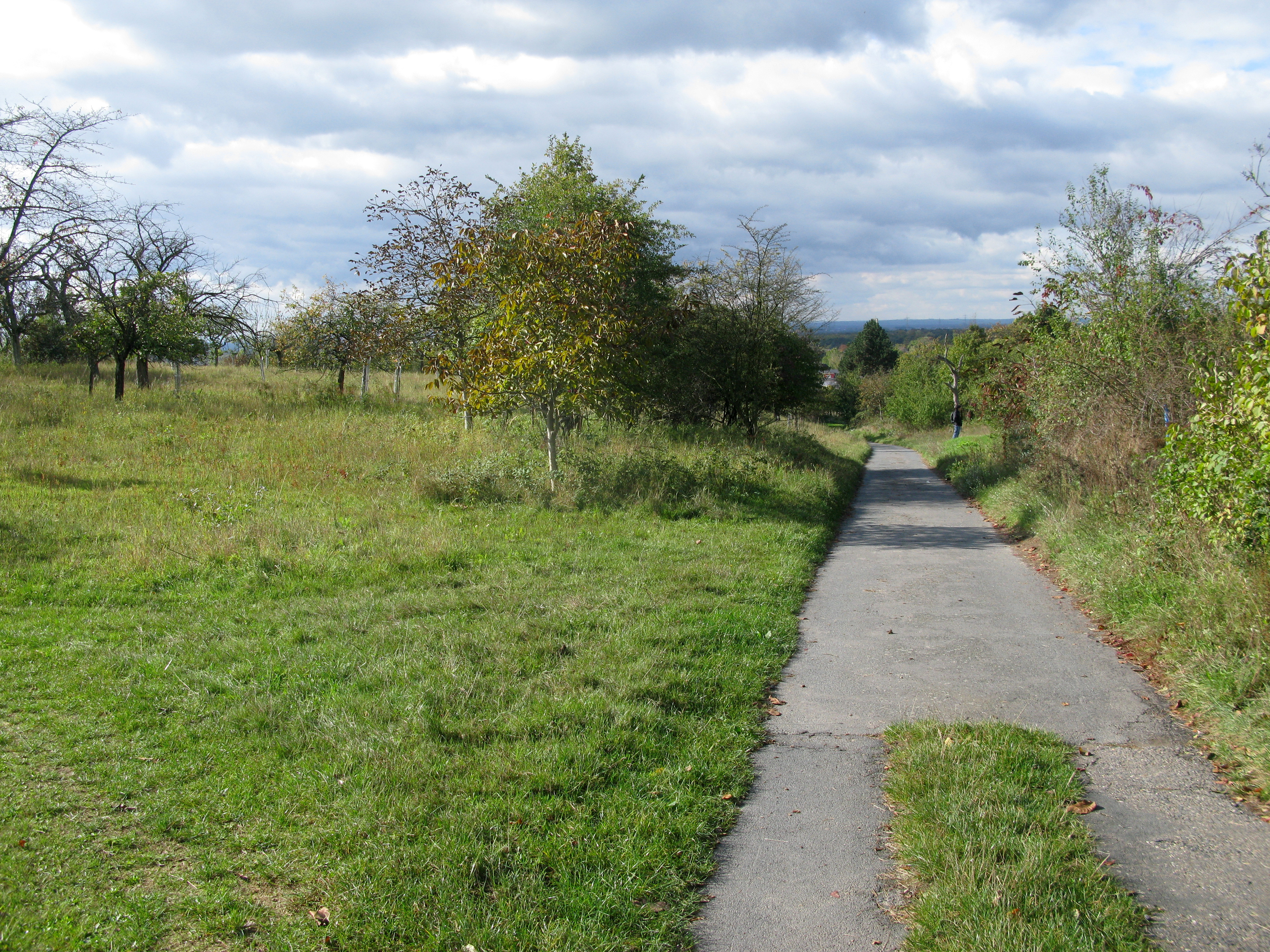 Orchard in Darmstadt-Eberstadt